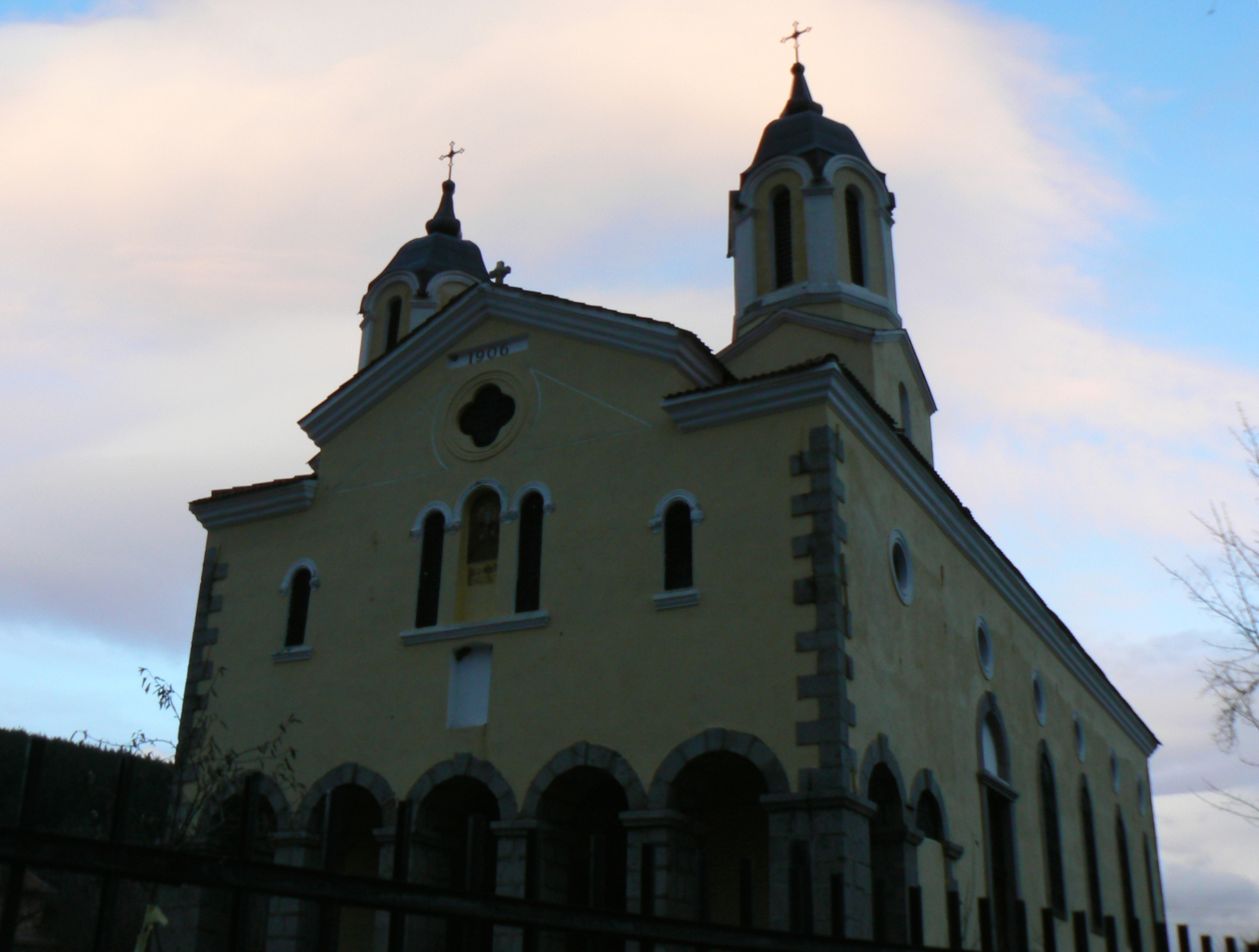 Church "Saint Nedelya" in the centre of village Yarlovo, Bulgaria